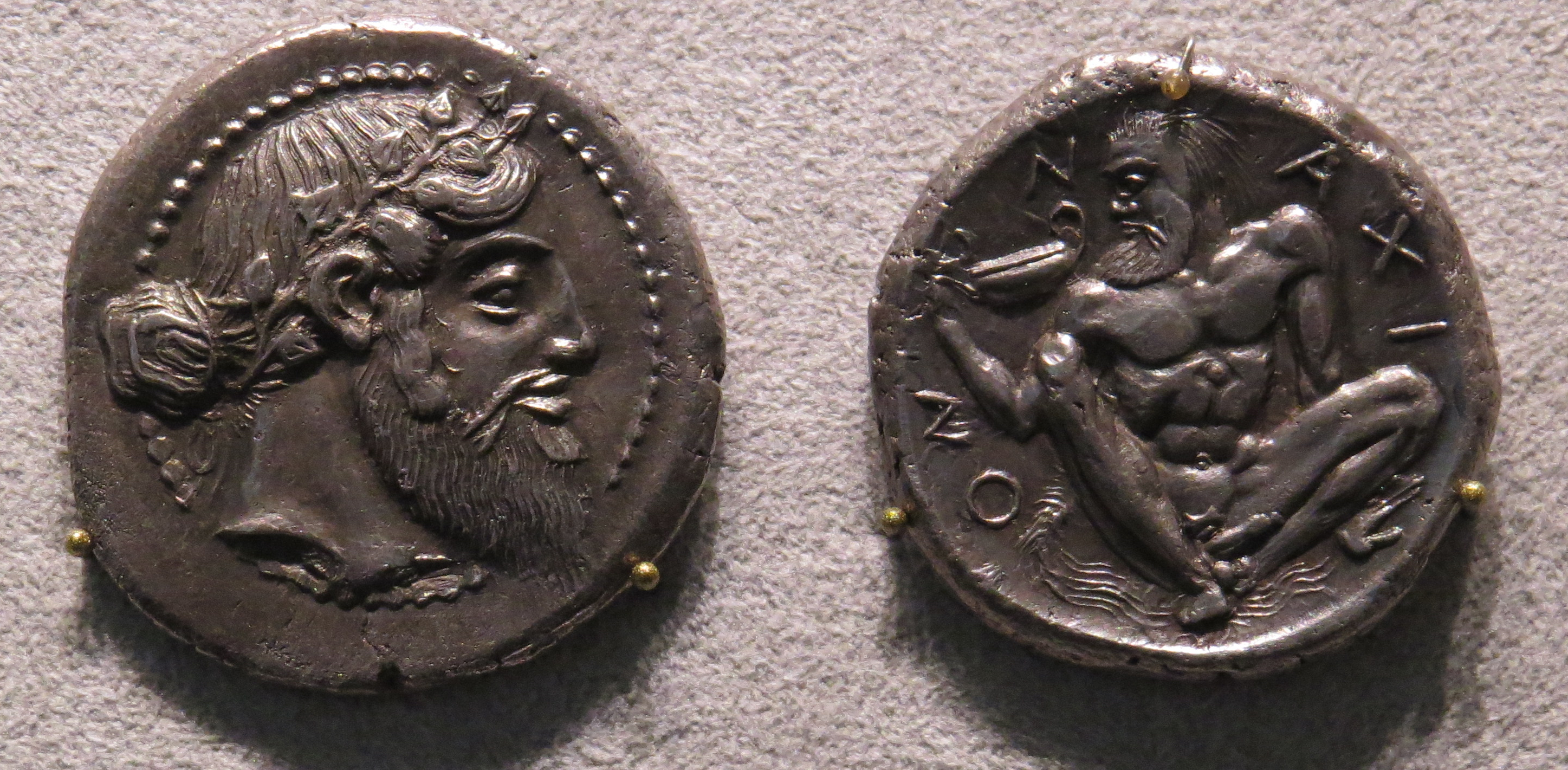 Tetradrachm minted in Naxos (Sicily) from the 5th century BC[1] (Altes Museum, Berlin). • Obverse: Head of Dionysus in archaic style; • Reverse: Satyr holding kantharos. ↑ Sear, David R. (1978). Greek Coins and Their Values . Volume I: Europe (pp. 91, coin # 872). Seaby Ltd., London. ISBN 0 900652 46 2